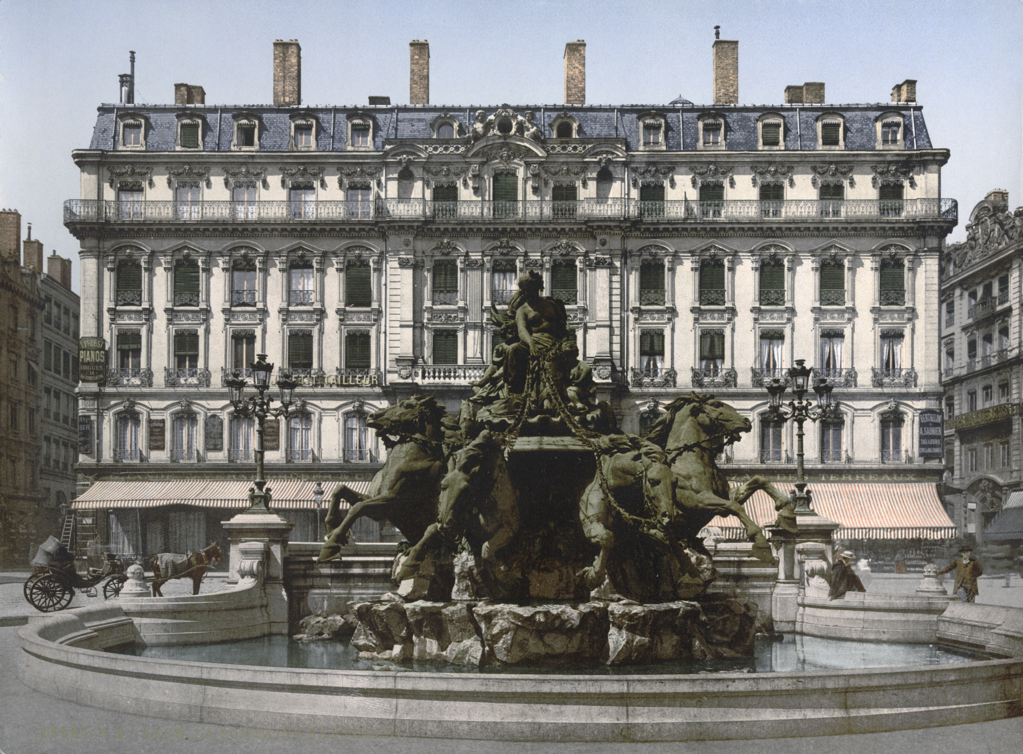 Bartholdi Fountain, Lyons, France